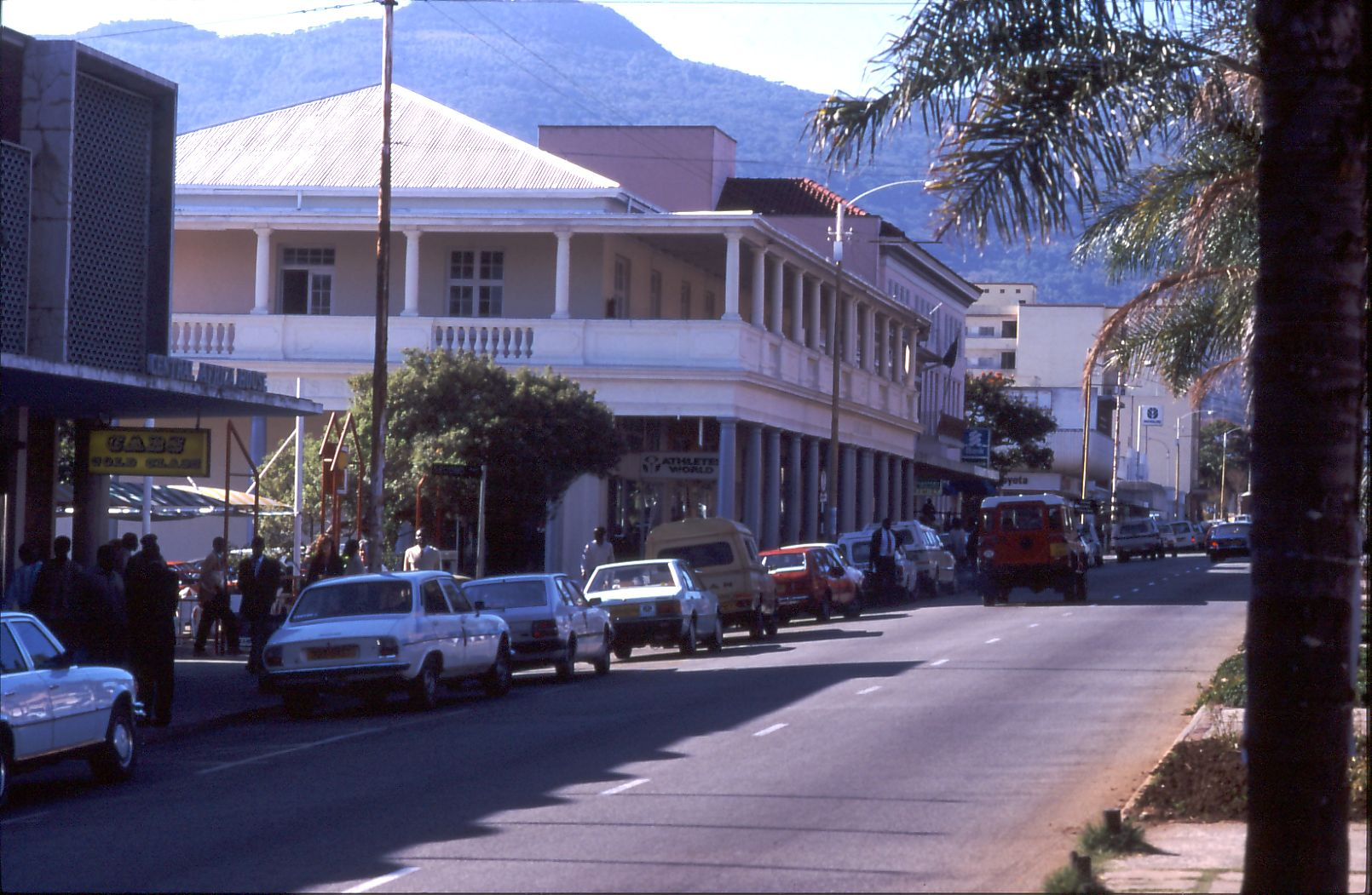 Another street in Mutare